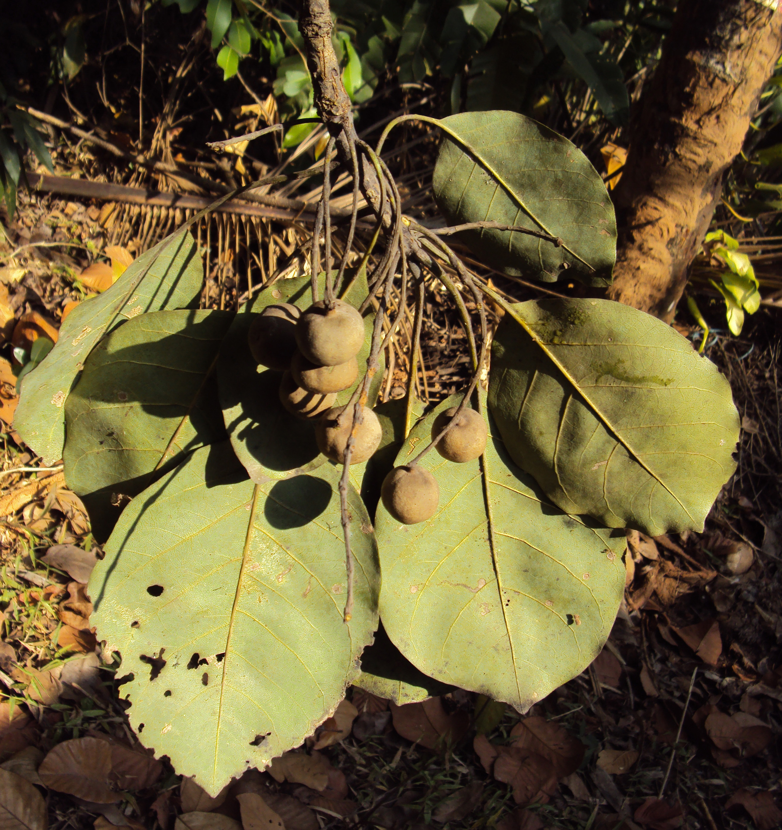 Terminalia bellerica